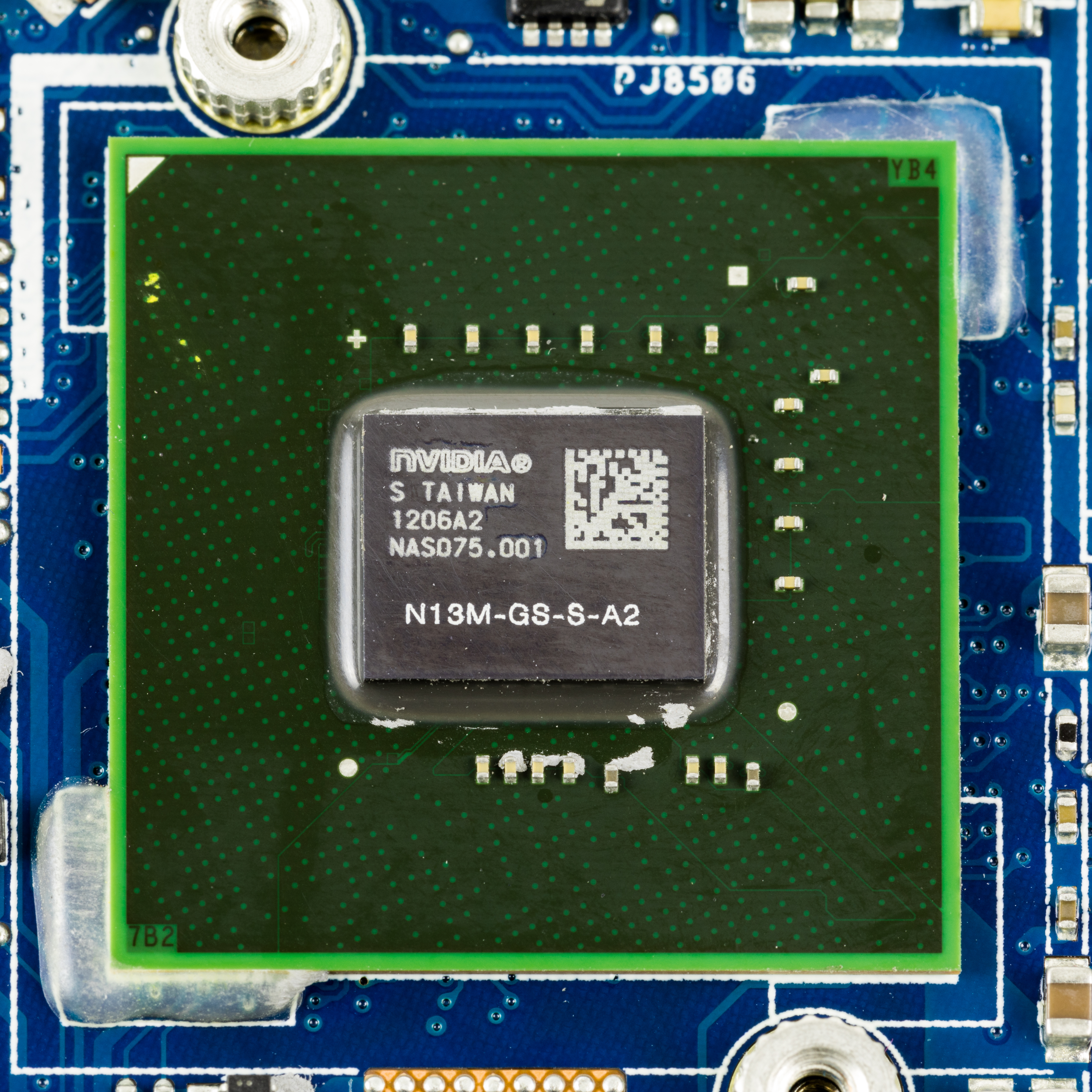 Asus Zenbook UX32V - motherboard - Nvidia GF117 (N13M-GE-S-A2) - graphics processing units - GeForce 600M (6xxM) Serie